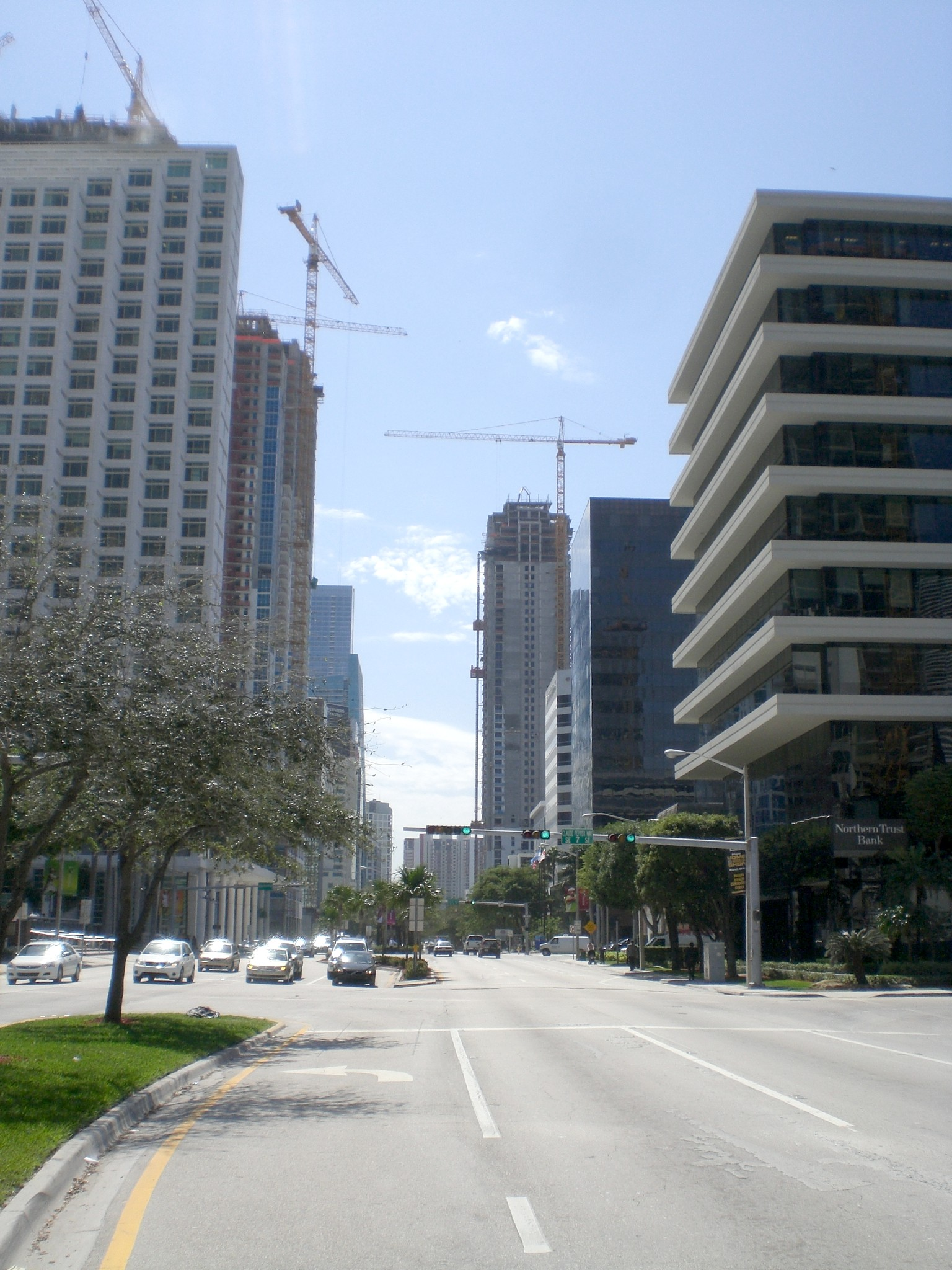 Downtown Miami - Brickell Avenue from just south of the Miami River, facing south. 3/5/2007.